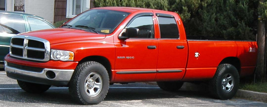 2002-2005 Dodge Ram Quad Cab long bed photographed in USA.